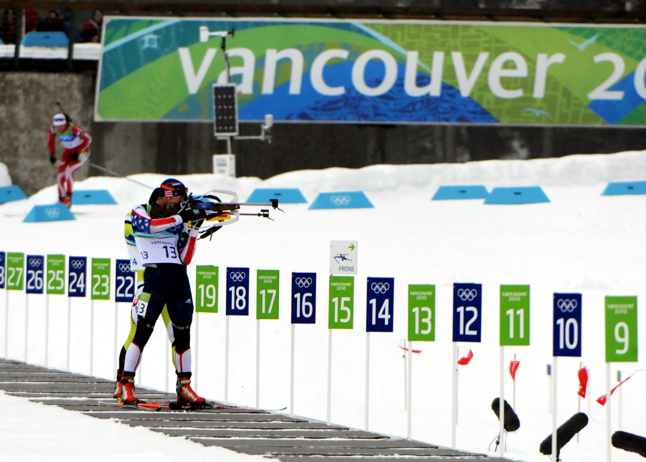 U.S. Army World Class Athlete Program biathlete U.S. Army Sgt. Jeremy Teela shoots to a ninth-place finish in the Olympic men's 10-kilometer sprint at Whistler Olympic Park in British Columbia.